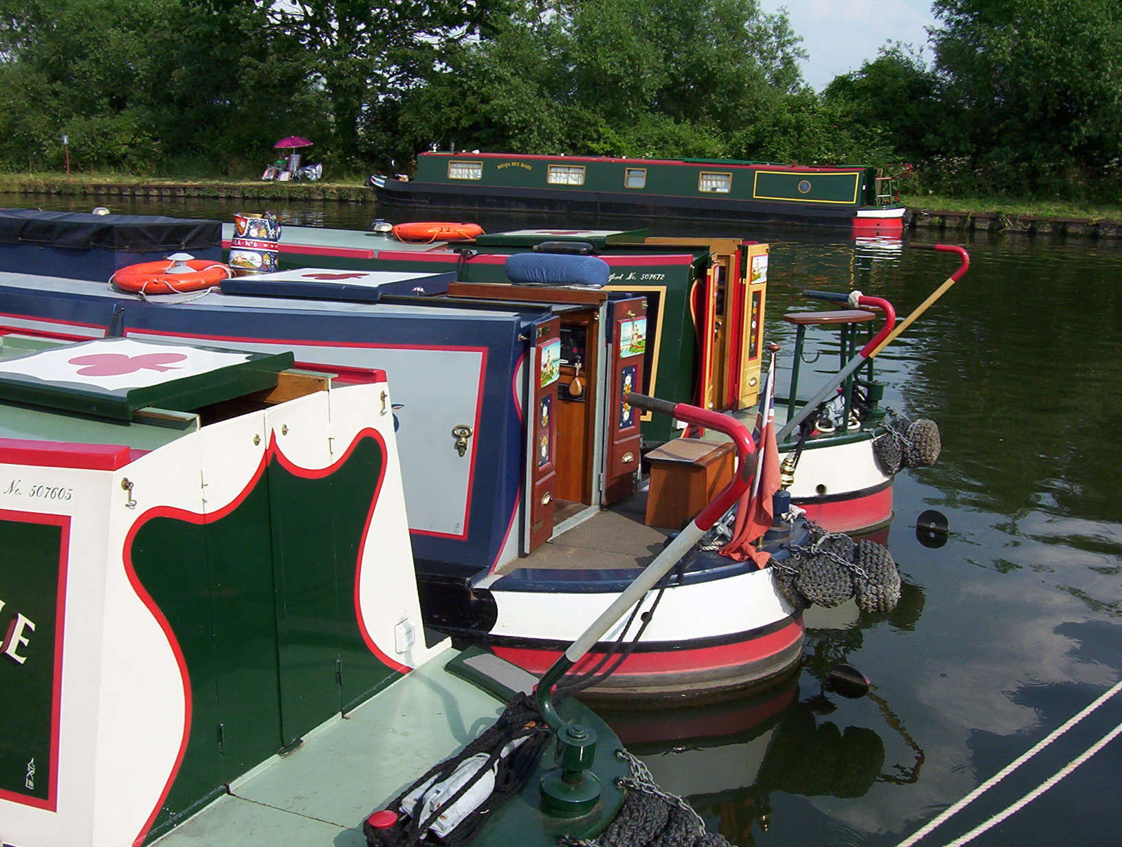 Narrow boat sterns at Saul, Gloucestershire